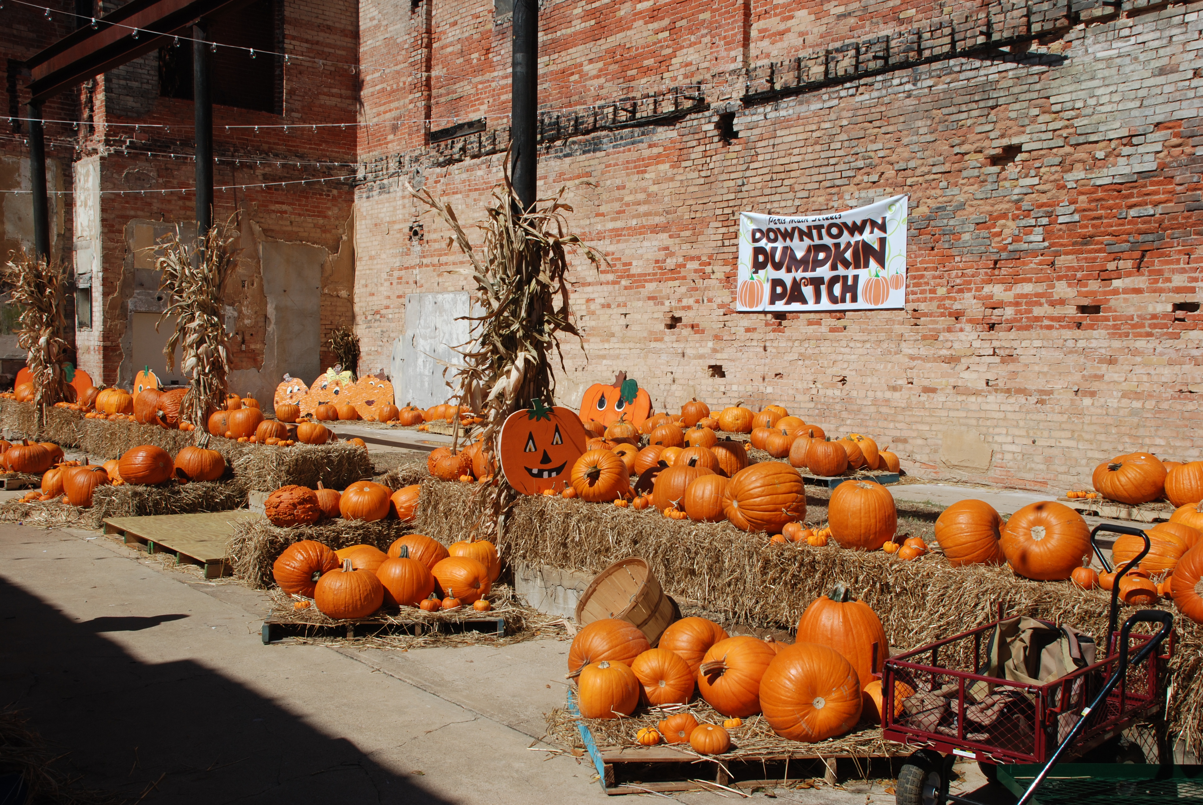 Fall Pumpkin Market in Paris (Texas. USA)